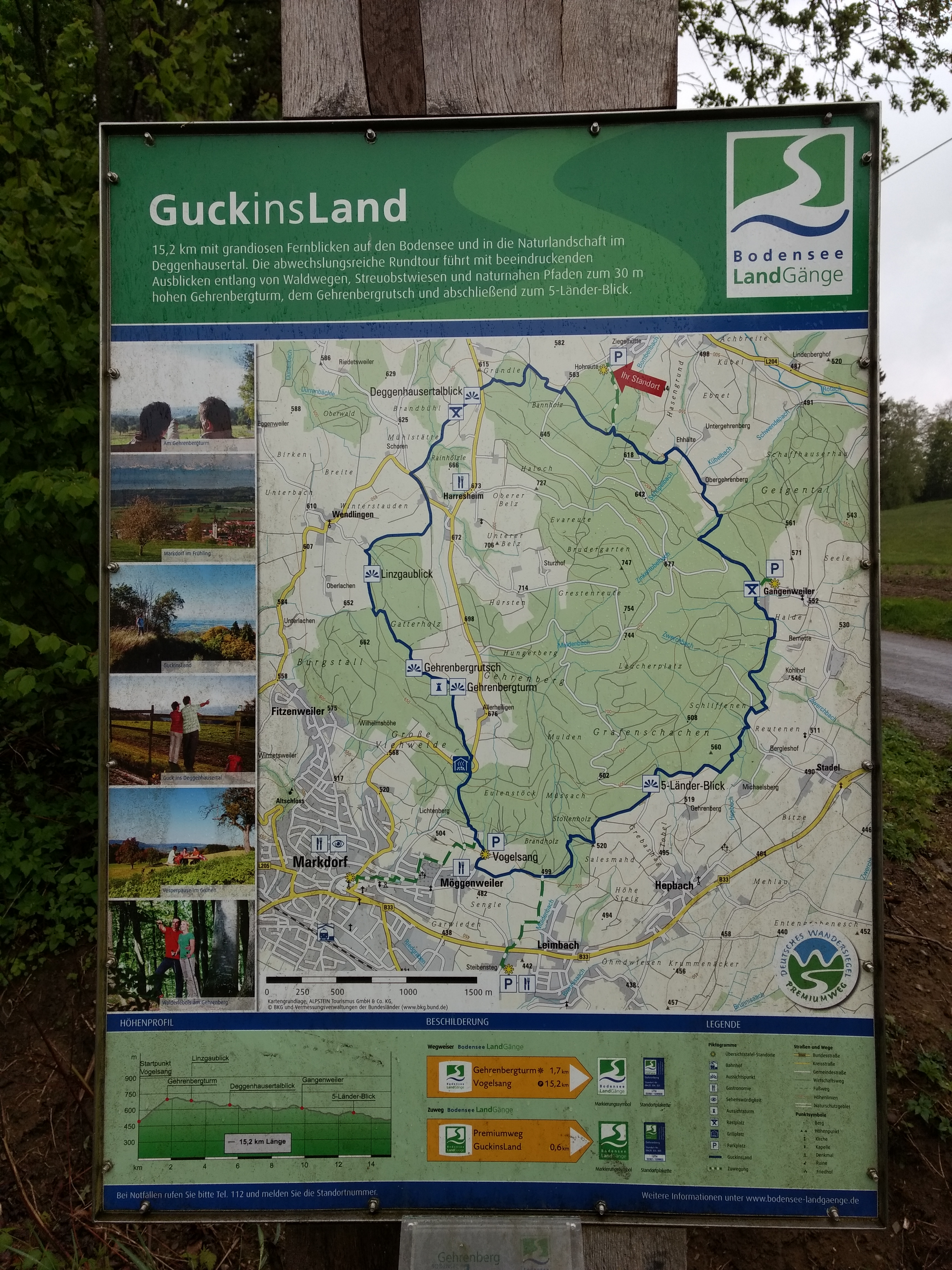 Map with description of hiking trails